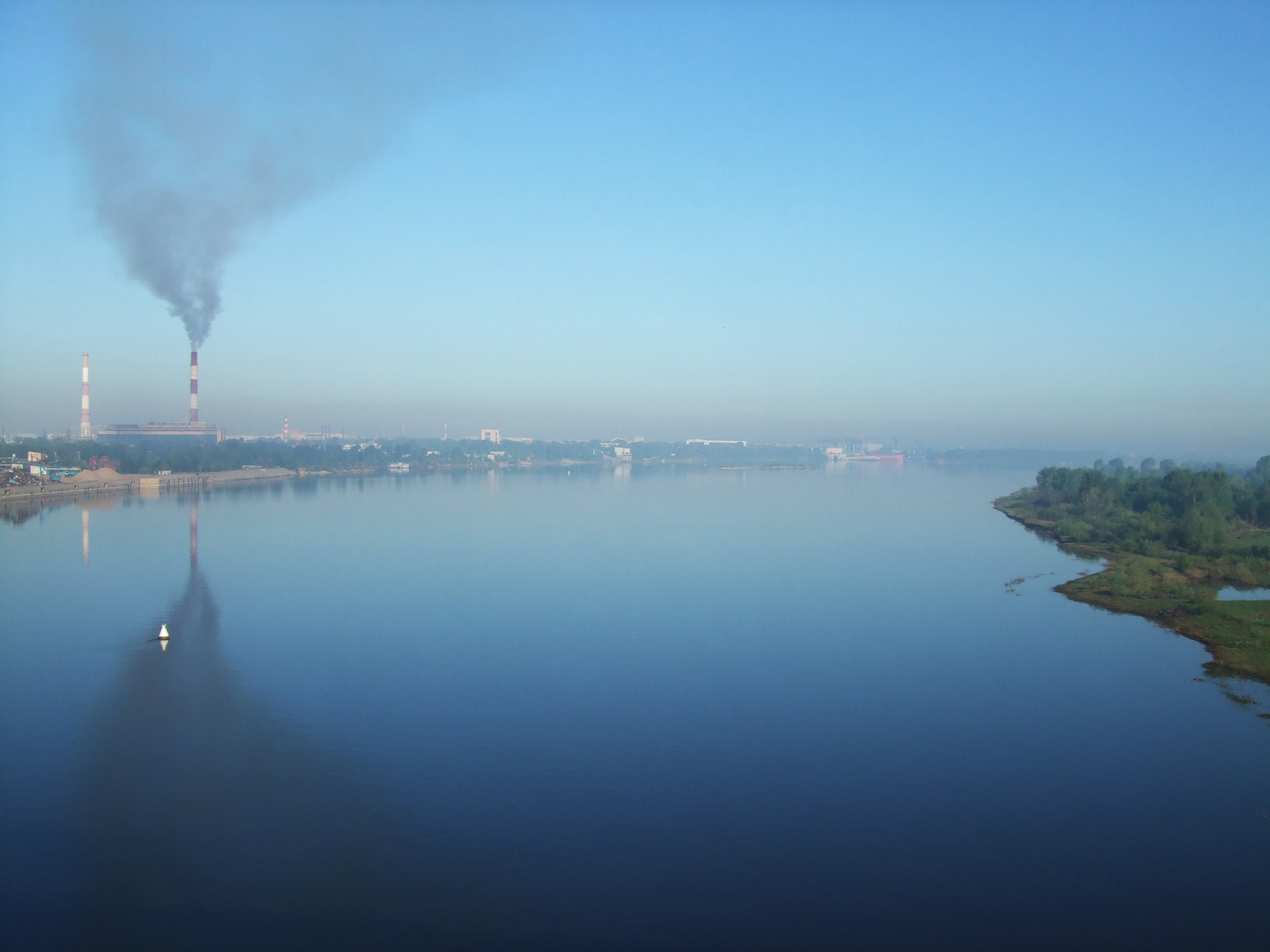 Smoke over the river Volga at Nizhni Novgorod in Russia.